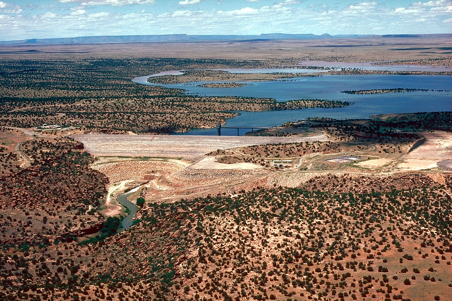 Santa Rosa Dam and Santa Rosa Lake (reservoir) on the Pecos River — in Guadalupe County, New Mexico, USA. View is upriver to the north. The dam is located approximately 7 miles (11.2 km) north of the city of Santa Rosa, New Mexico. The U.S. Army Corps of Engineers constructed the dam for flood control and recreation on the Pecos River. Coordinates: 35°1′42.48″N 104°41′18.62″W / 35.0284667°N 104.6885056°W